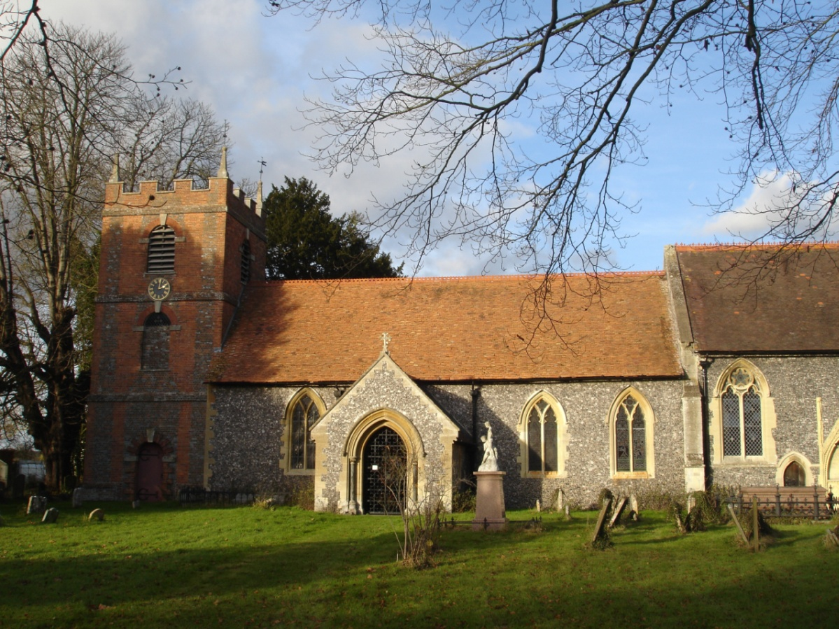 St Bartholomew's parish church, Lower Basildon, Berkshire, seen from the south